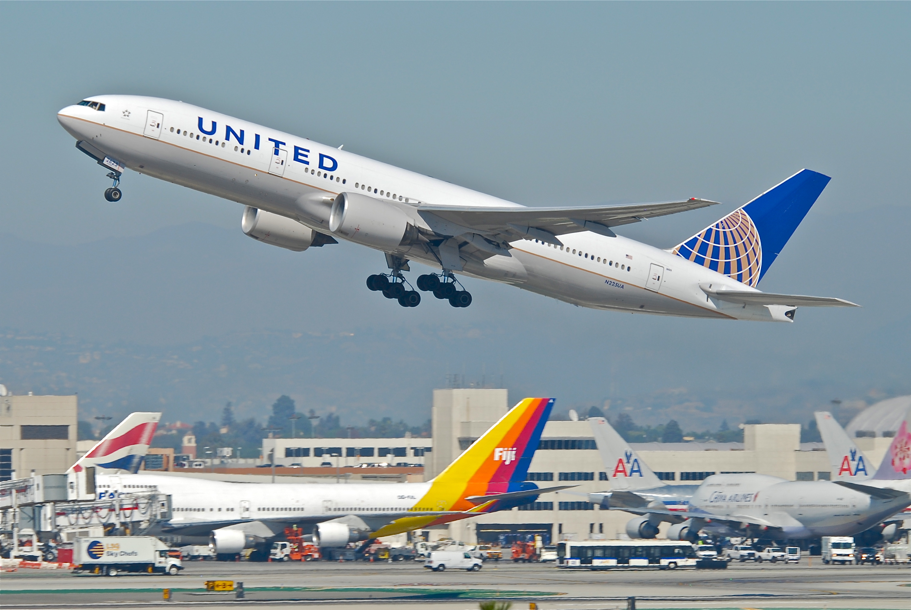 United Airlines Boeing 777-222ER; N225UA@LAX;11.10.2011/623kl